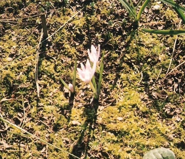 Colchicum hungaricum in my garden - scanned from a classical photo